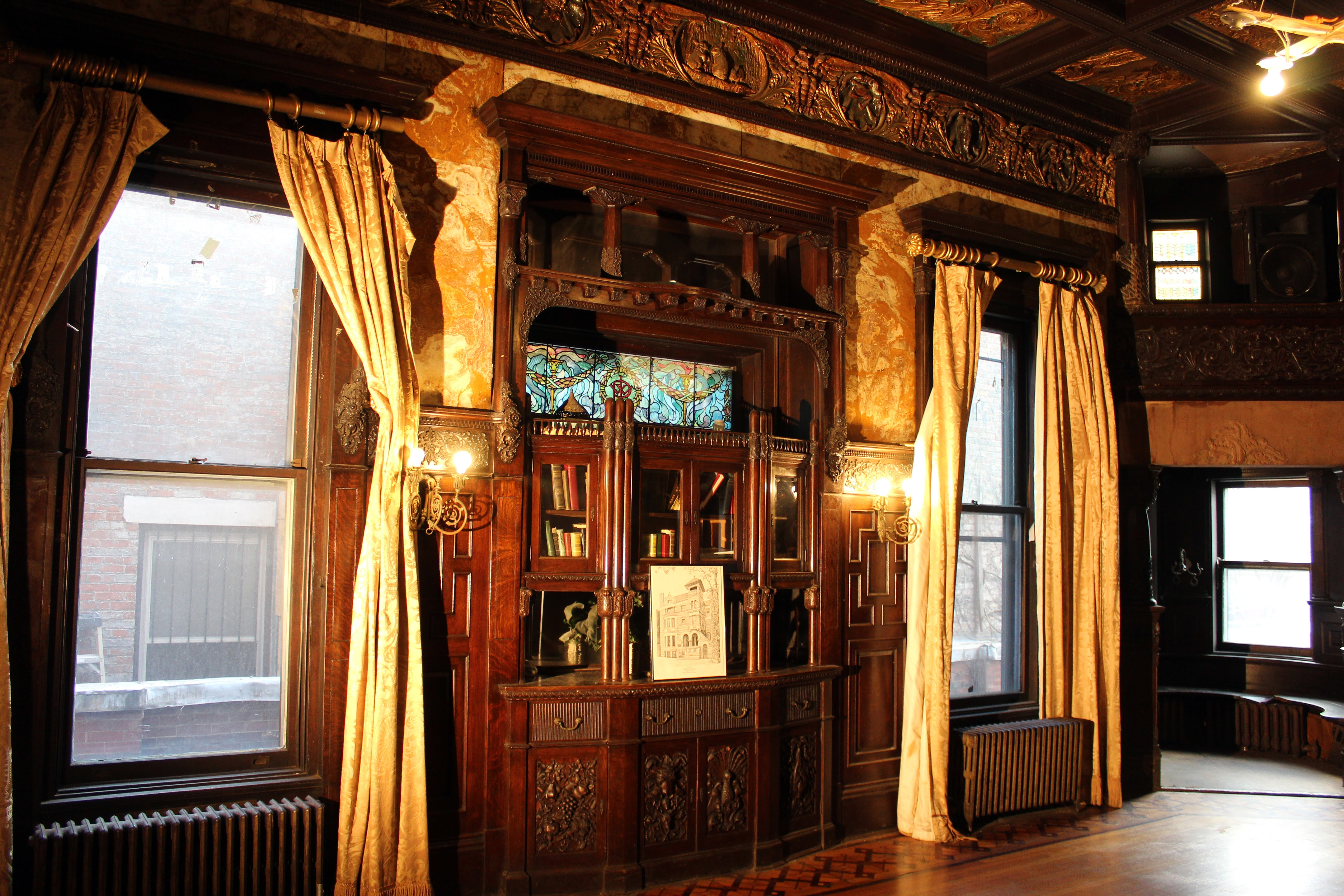 This is a photo of the Paine Mansion( Pi Kappa Phi Fraternity House) Dining room showing a Tiffany stained glass window, built in buffet, cherry inlaid floors and the choir loft.